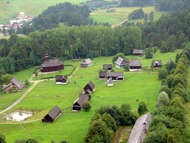 Skanzen in Stará Lubovna, view from castle Foto 8-2005